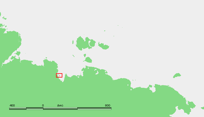 location map